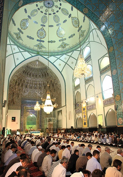 Ramadan Quran Reading on the 14th day of Ramadan 1431 in Goharshad Mosque, Mashhad.